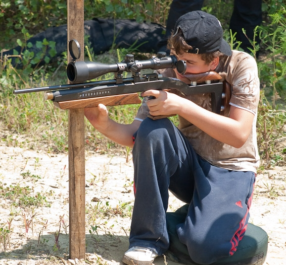 Hunter FT Shooter